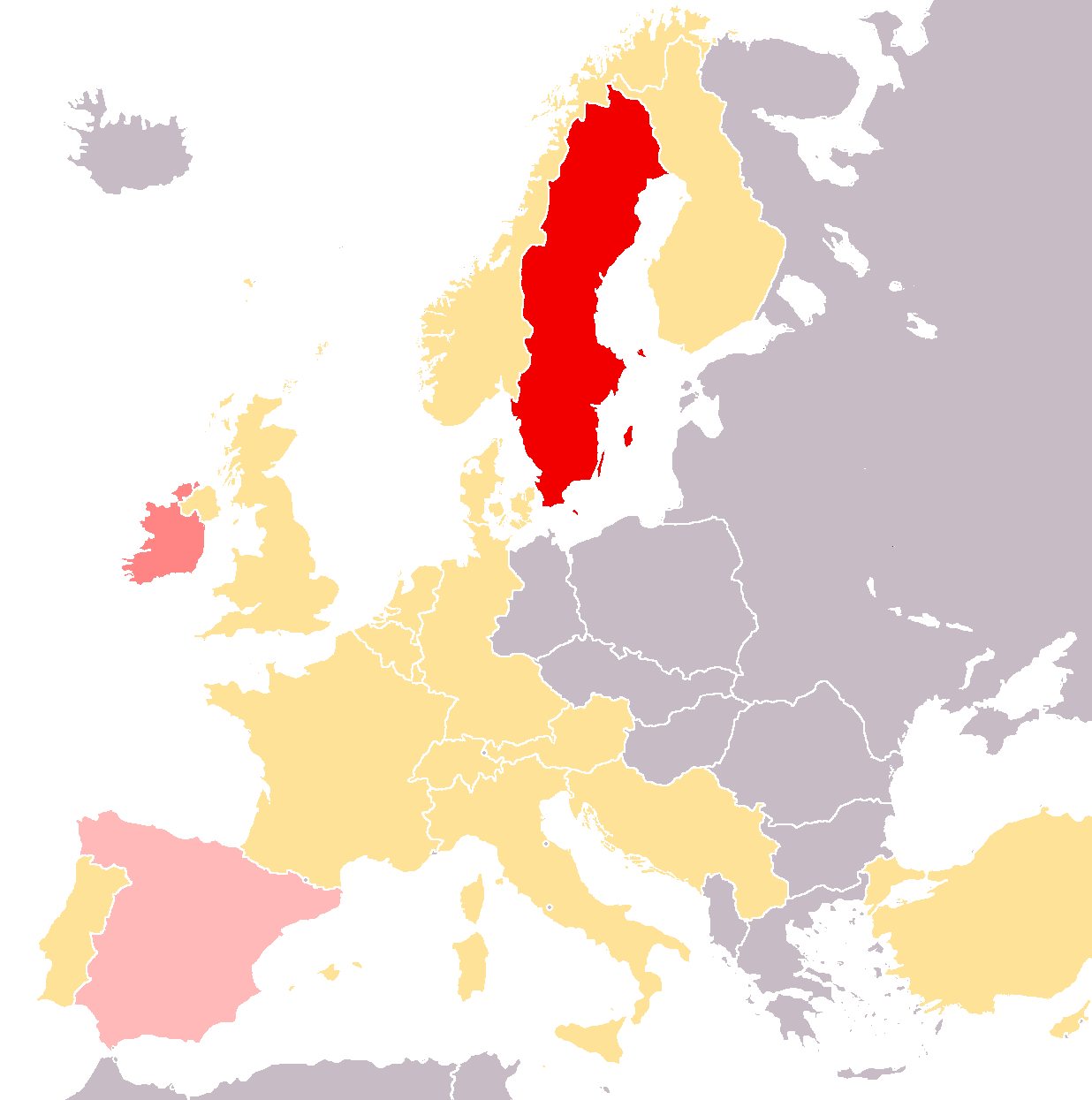 Map of Eurovision 1984